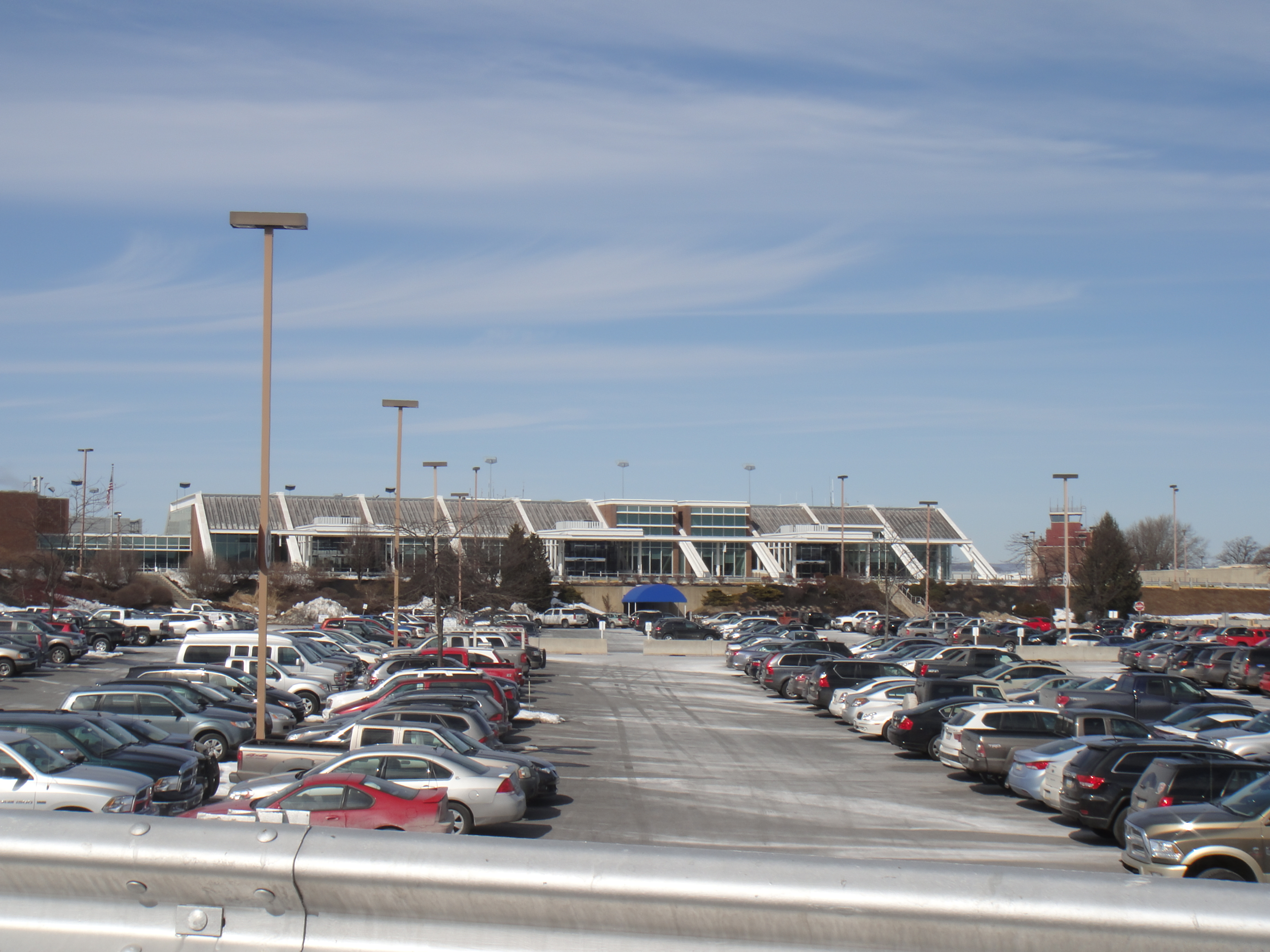 Lehigh Valley International Airport